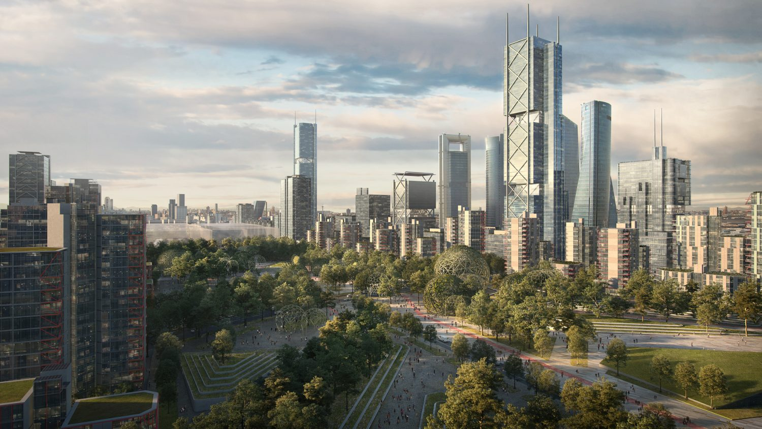 Graphical representation of the projected future appearance of the area to be renovated within the scope of the Madrid Nuevo Norte project